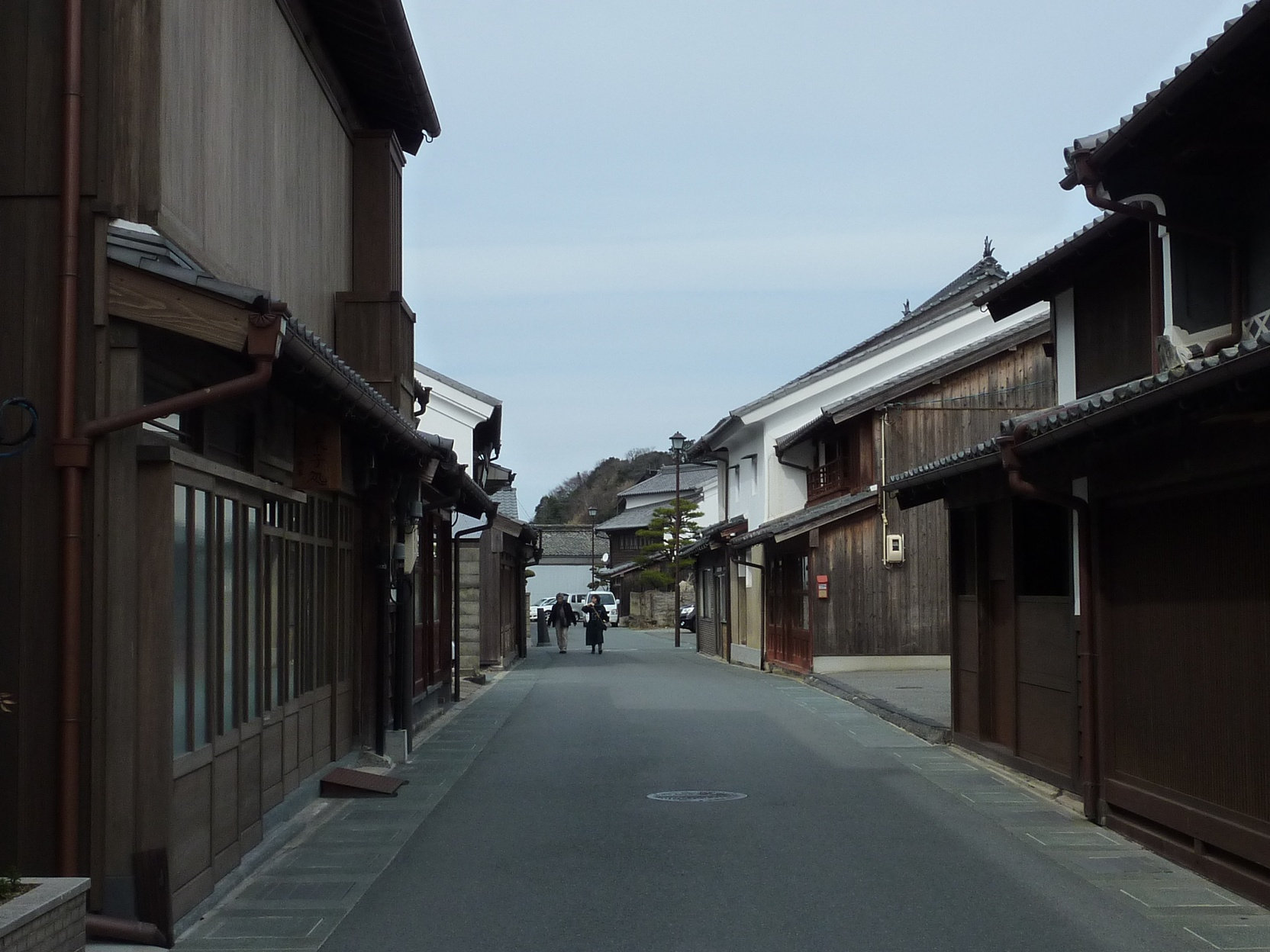 Hamasaki, Hagi City, Yamaguchi, Japan.